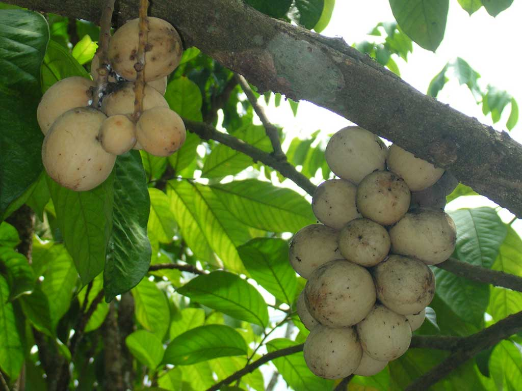 Picture of Lanzones in Valencia, Negros Oriental, Philippines.